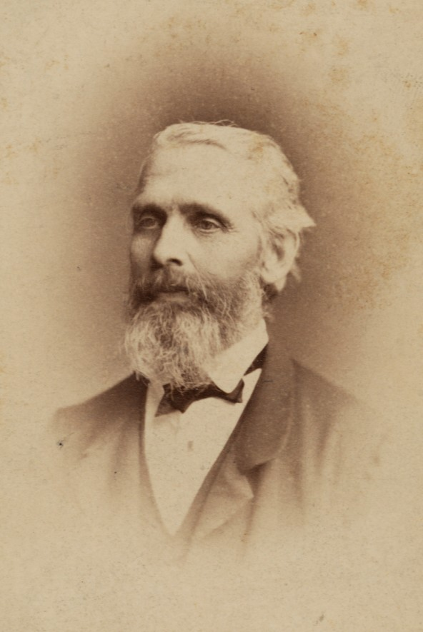 A doctor, botanist, translator and politician František Rybička (1813 - 1890), mayor of Česká Třebová